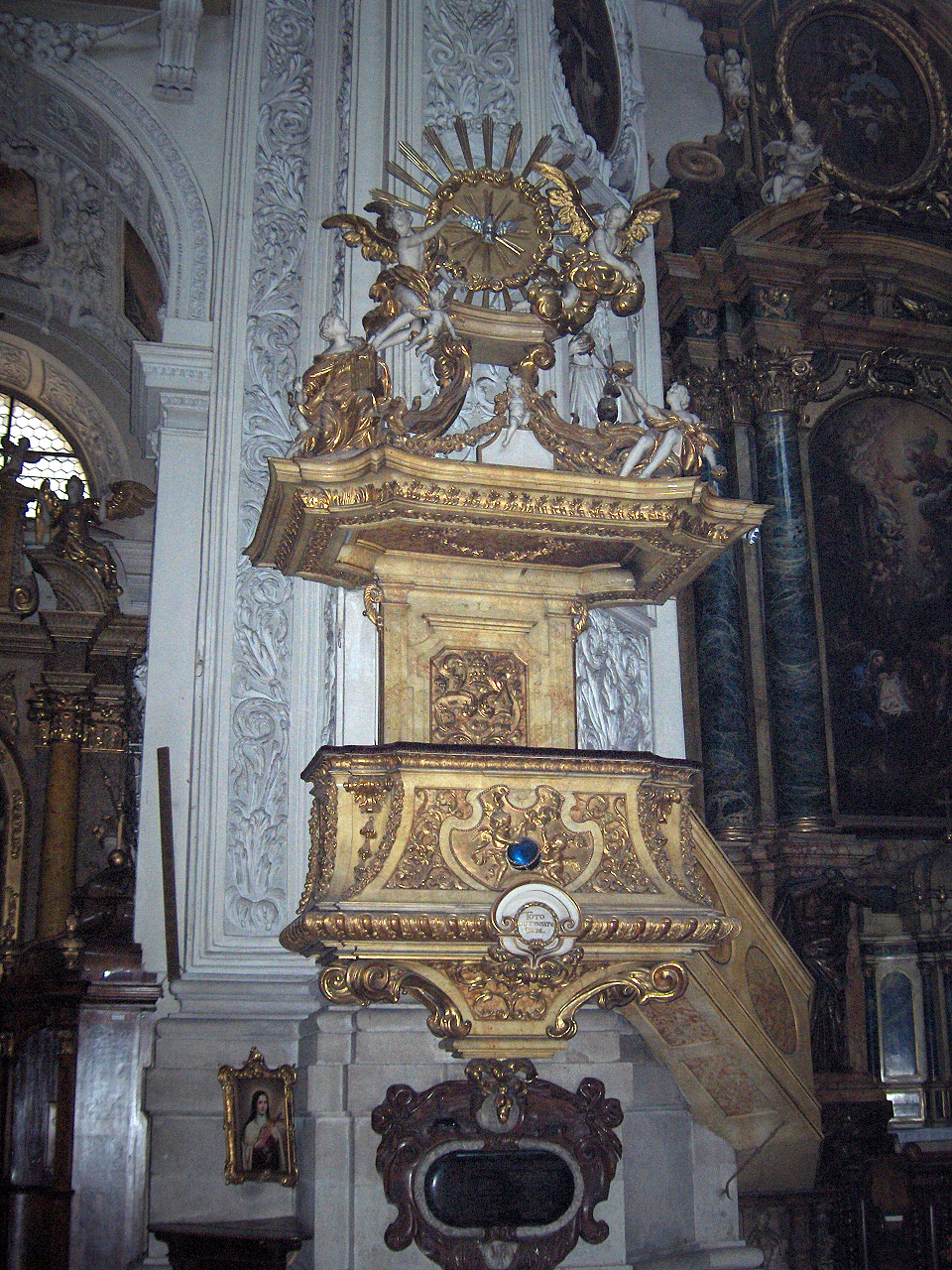 The Rosary pulpit by Matthias Steinl; Dominikanerkirche, Vienna, Austria